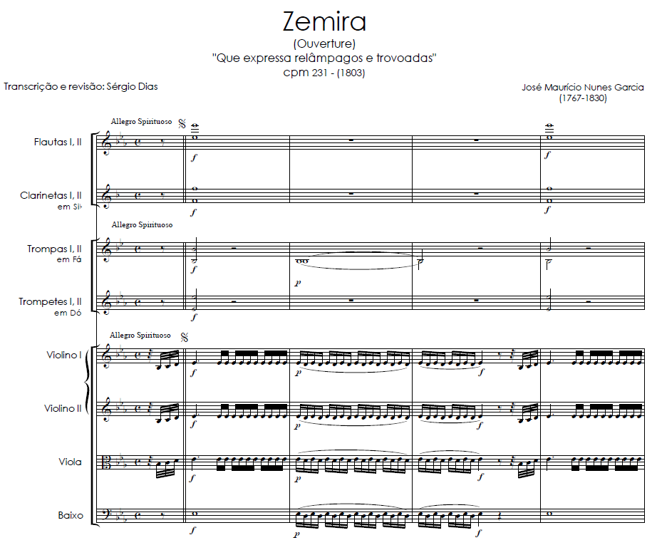 Score